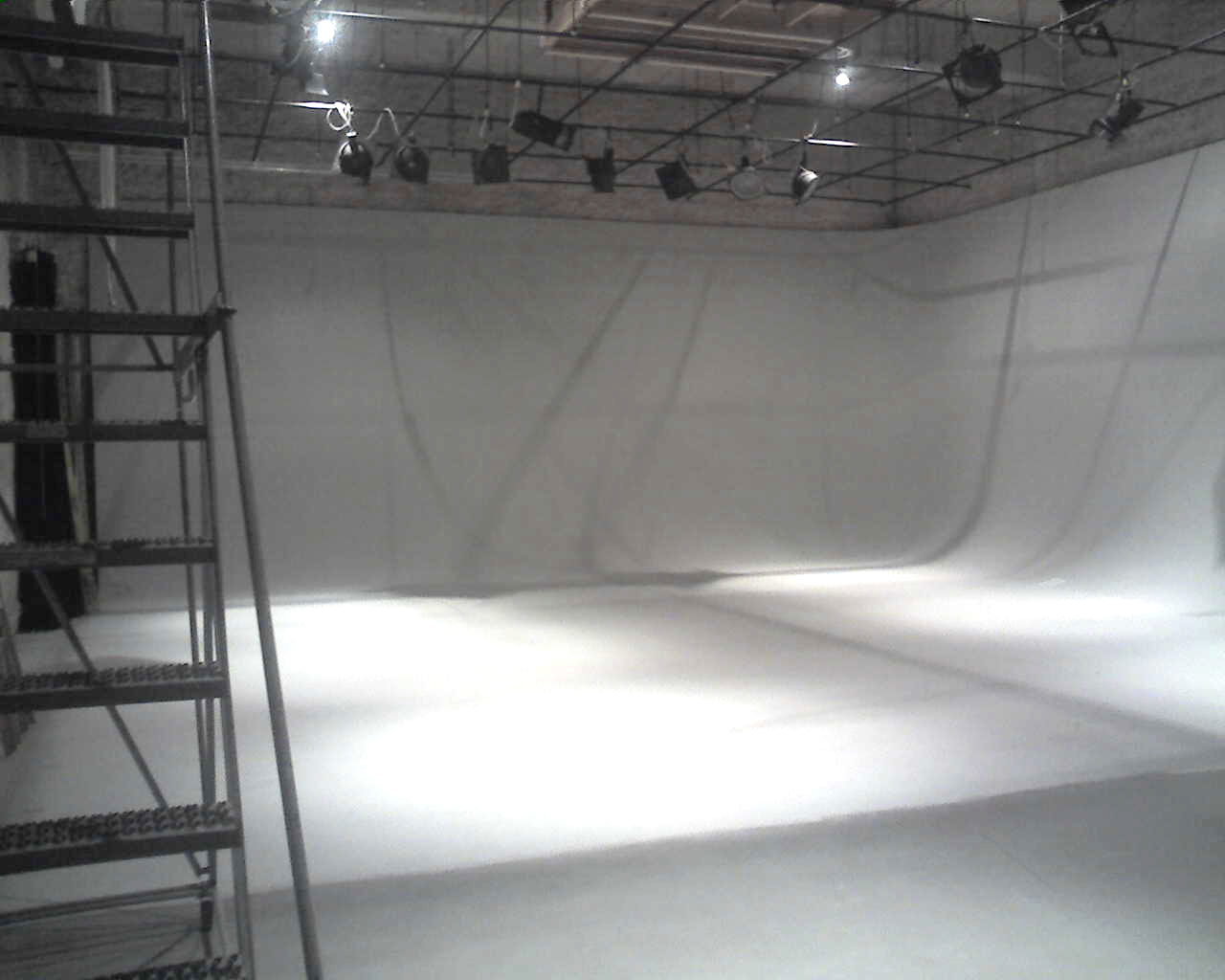 Photography of the Video Wisconsin Sound Stage